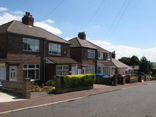 (The site of) Condercum (Benwell) Roman Fort Most of the fort north of Westgate Road was destroyed when a reservoir was built in the mid-1860s; the southern area was built over between 1926 and 1937.